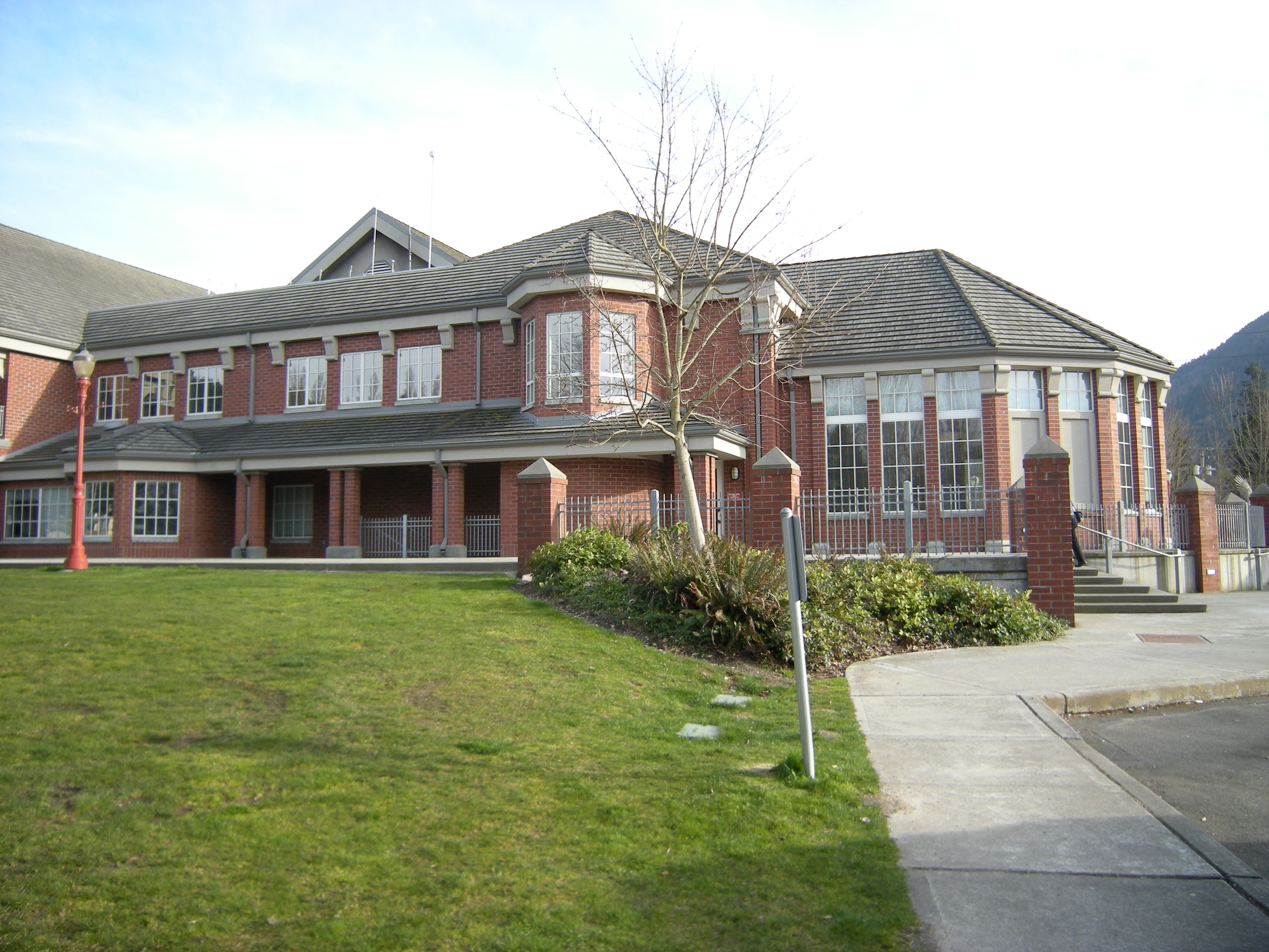 City Hall, Issaquah, Washington.